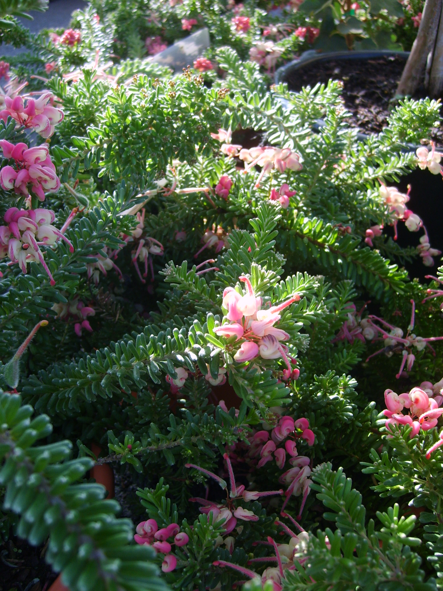 Grevillea lanigera mount tamboritha